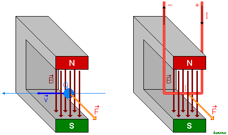 Illustration of the Lorentz force ATTENTION: The charge in the left part of the illustration is a positiv charge carrier. If it was a negative one, it would have been deflected into the other direction. In the right part of the illustration the Right-hand rule is used. Otherwise - to find the right Lorentz force - you have to use the left hand.